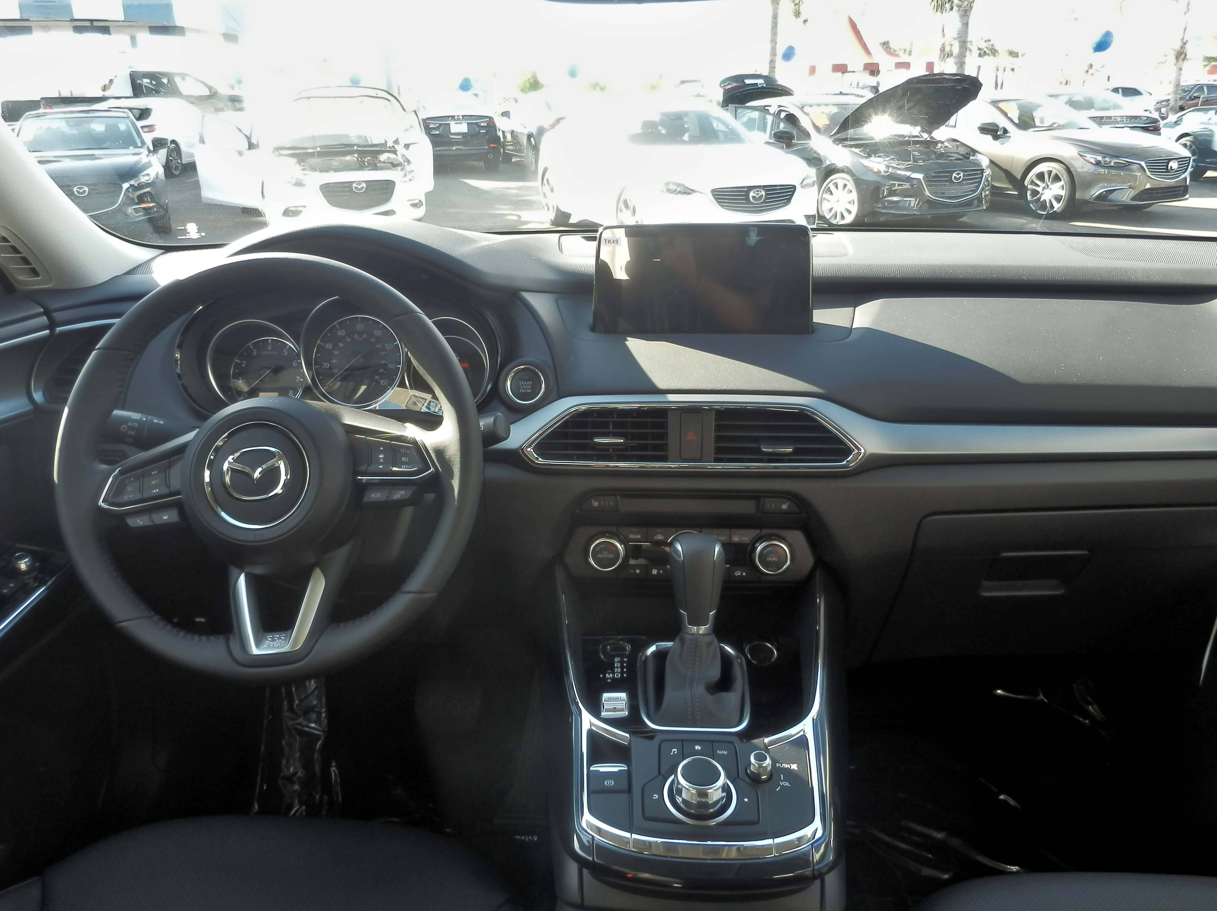 Mazda CX-9 in Bakersfield